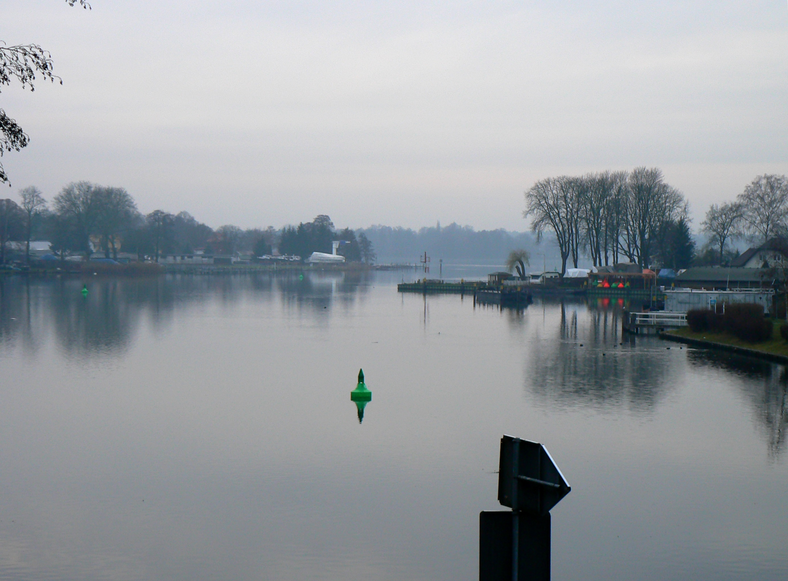 Lake Dämeritzsee in Berlin-Hessenwinkel and Erkner, Brandenburg, Germany